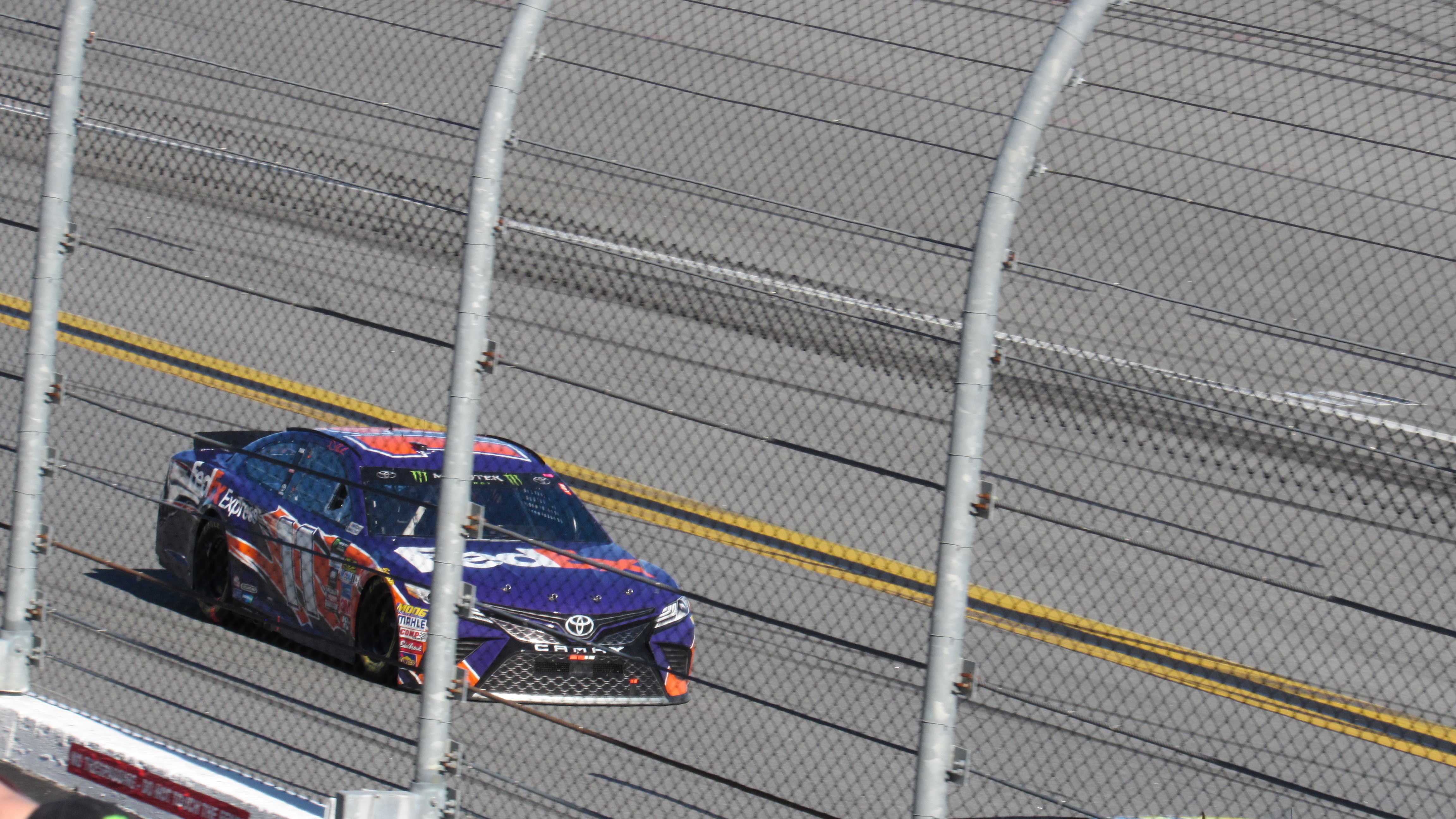 The No. 11 car of Denny Hamlin in the Daytona 500 at the Daytona International Speedway.